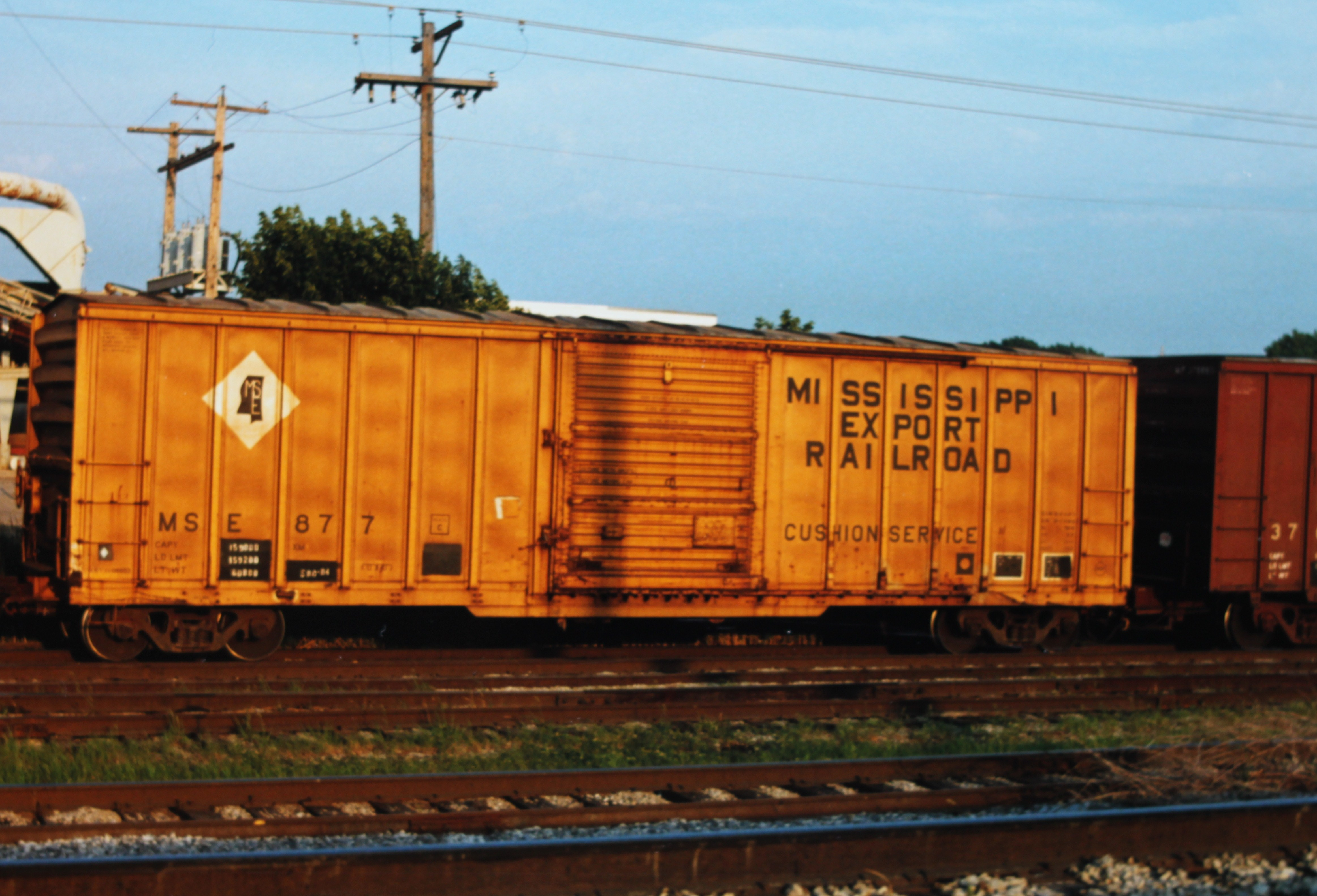 Seen on ICG/IC, Railroad rolling stock, 1988; digital copy of print. Complete indexed photo collection at .